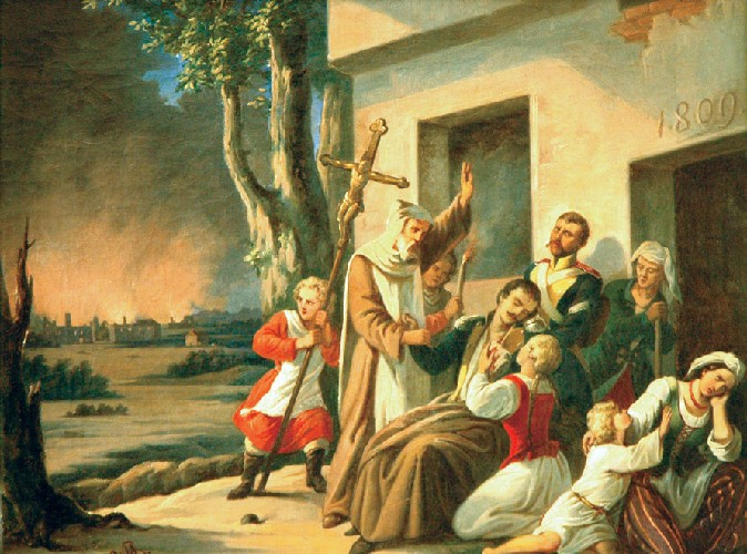 Scene after the battle